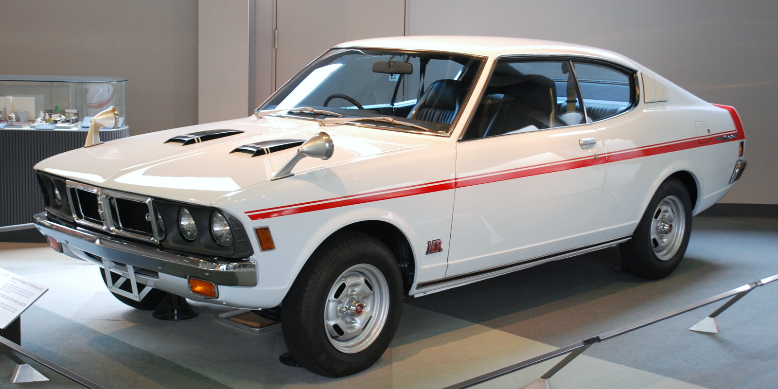 Mitsubishi Colt Galant GTO-MR Model A53C